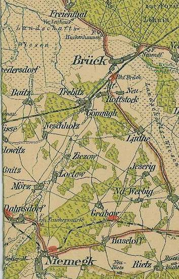 Historical Pharus-Map from 1903 (part). Town Brück with villages und sorrounding area in the district Potsdam Mittelmark, state Brandenburg, Germany at the border to the Belziger Landschaftswiesen and natural preserve Naturpark Hoher Fläming.